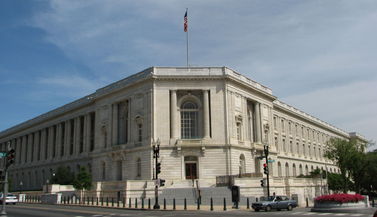 Photograph of the Cannon House Office building at the United States Capitol, taken by RebelAt, on June 23rd, 2007.